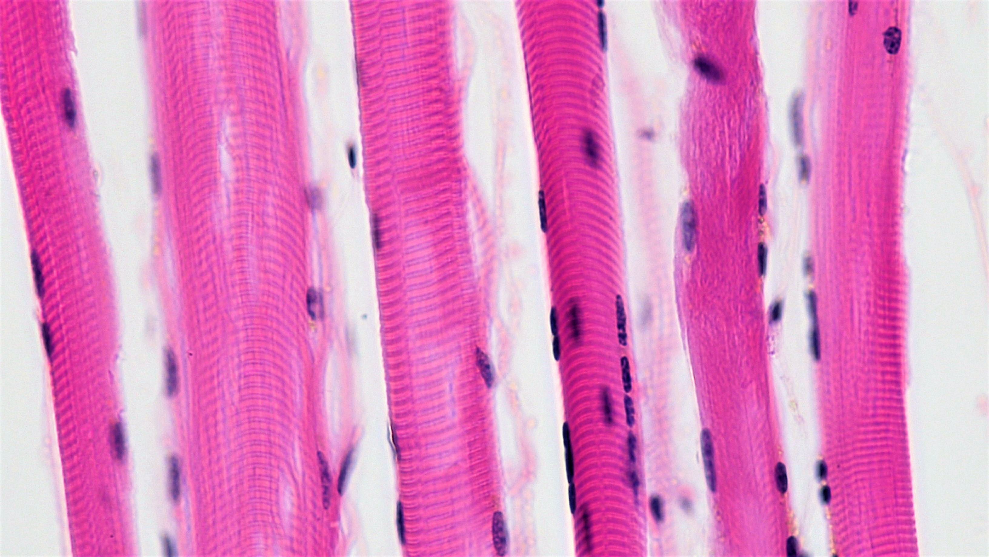 Cross section: teased skeletal muscle magnification: 200x